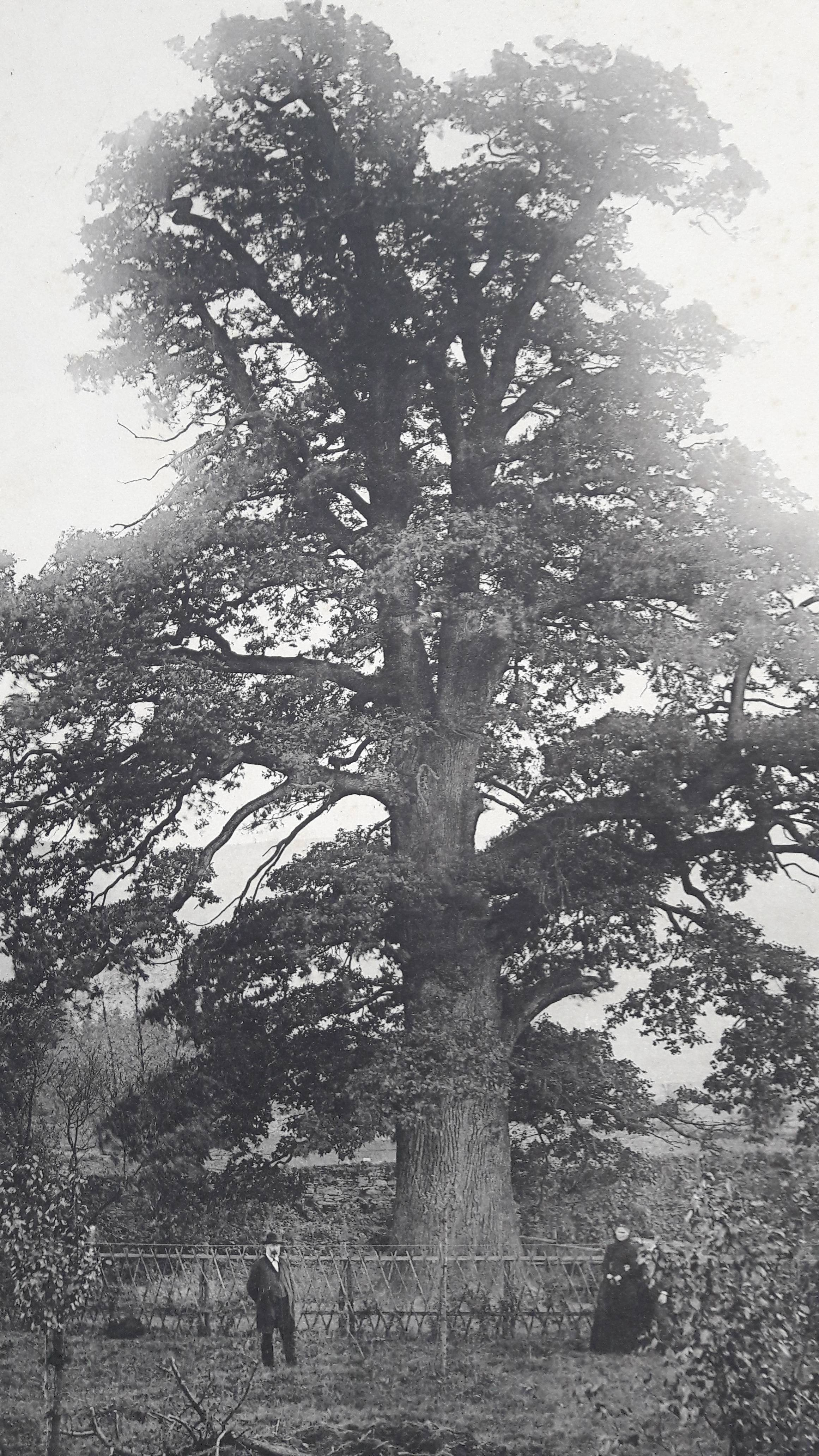 Johann Caspar Harkort VI. mit Gattin im Jahr 1886 vor der 600-jährigen Eiche Hagens im Hofpark des Freigutes Harkorten